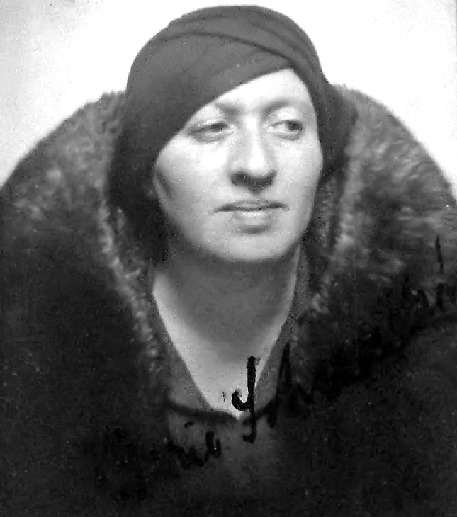 Mrs. Marie Schmolková (Schmolka, née Eisnerová; * June 23, 1893 Prague - March 27, 1940 London) was a Czech politician, humanitarian worker, social democrat, female rights champion and Zionist, chairwoman of the National Refugee Coordination Committee in Czechoslovakia. During World War II, she saved thousands of refugees from Nazi persecution. Her collaborators included Milena Jesenská, Max Brod and Sir Nicholas Winton.